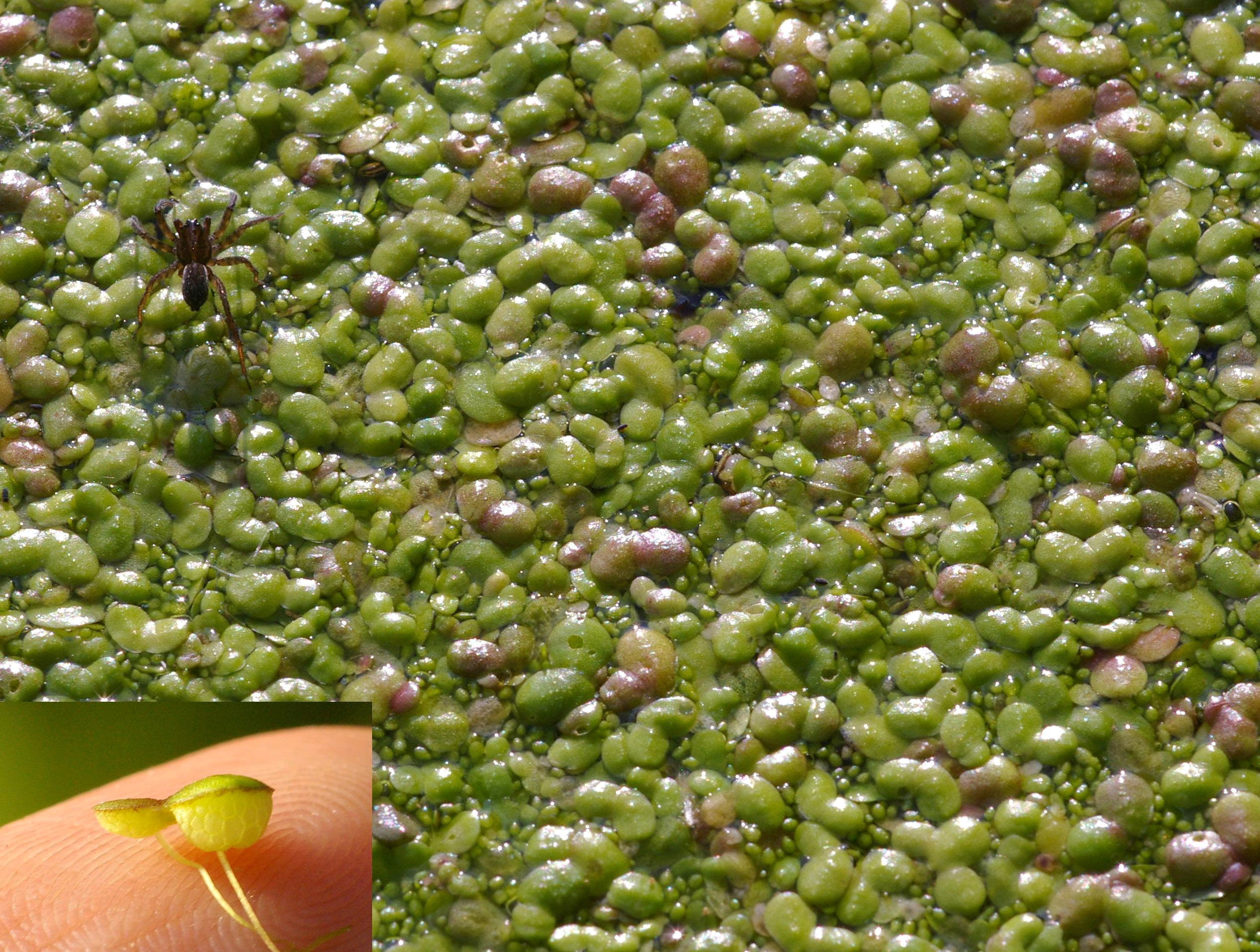 Close-up of different duckweed species on the surface of a pond: Lemna gibba (large "leaves"; see also close-up), and Wolffia arrhiza (very small).